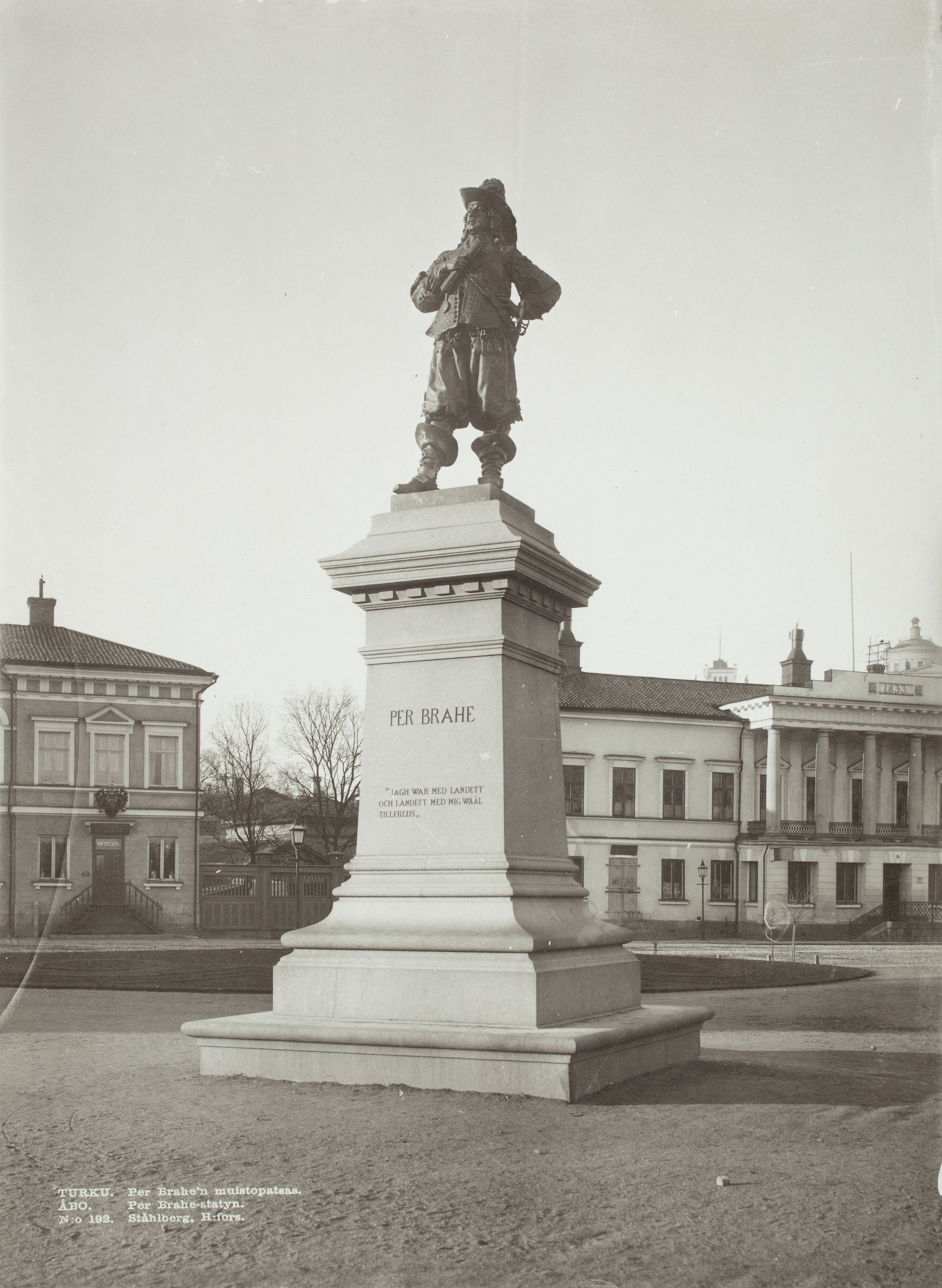 Per Brahe-statyn, Åbo (23,7x17,8 cm) Foto: Atelier K. E. Ståhlberg Helsingfors, Finland Svenska litteratursällskapet i Finland